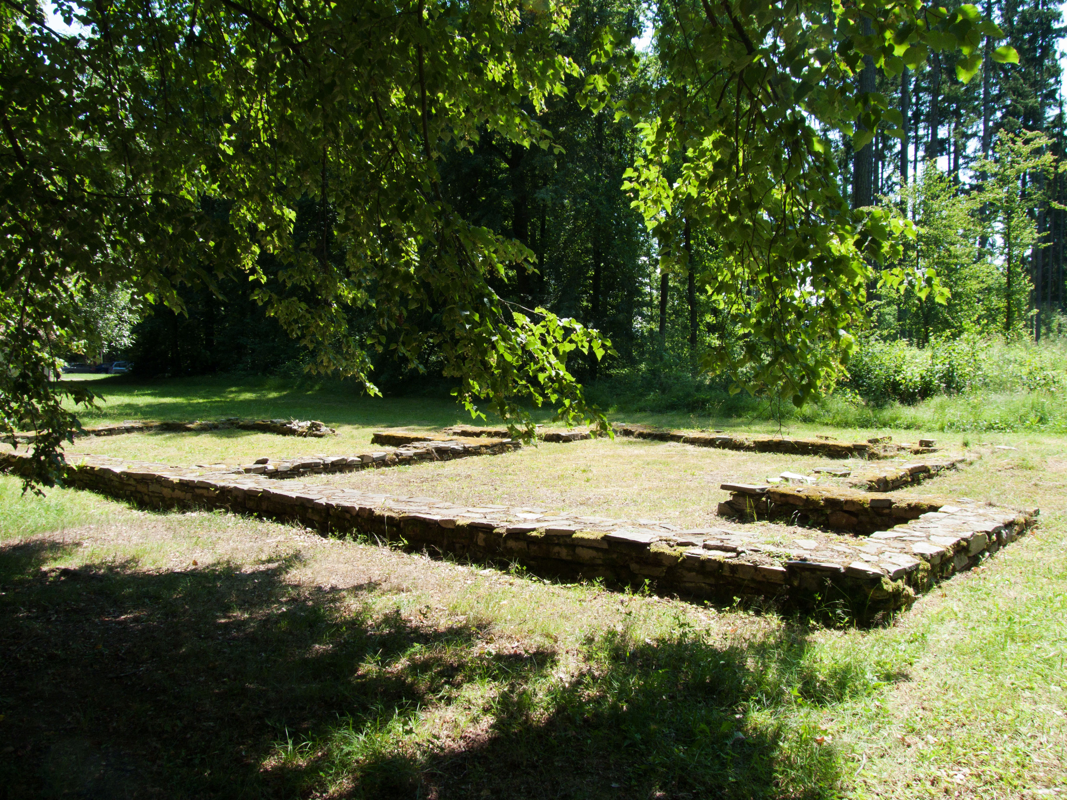 Ruins of the Žižka court in the southern part of the Jan Žižka Monument near Trocnov, České Budějovice District, Czech Republic, discovered by archeologist dr. Antonín Hejna in 1956. Česky: Pozůstatky Žižkova dvorce v jižní části areálu Památníku Jana Žižky poblíž Trocnova, okres České Budějovice, který objevil roku 1956 archeolog dr. Antonín Hejna.